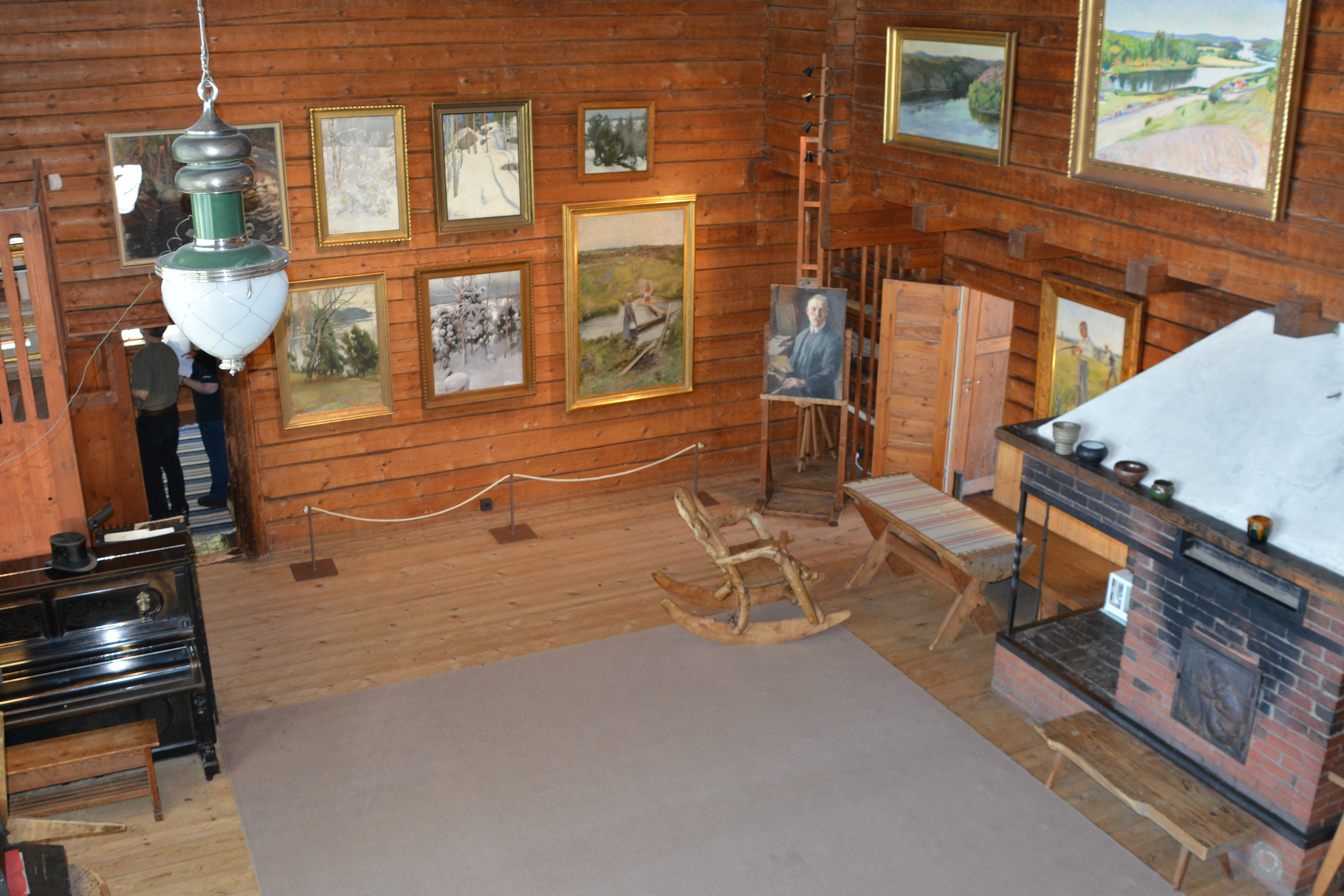 Halosenniemi, studio